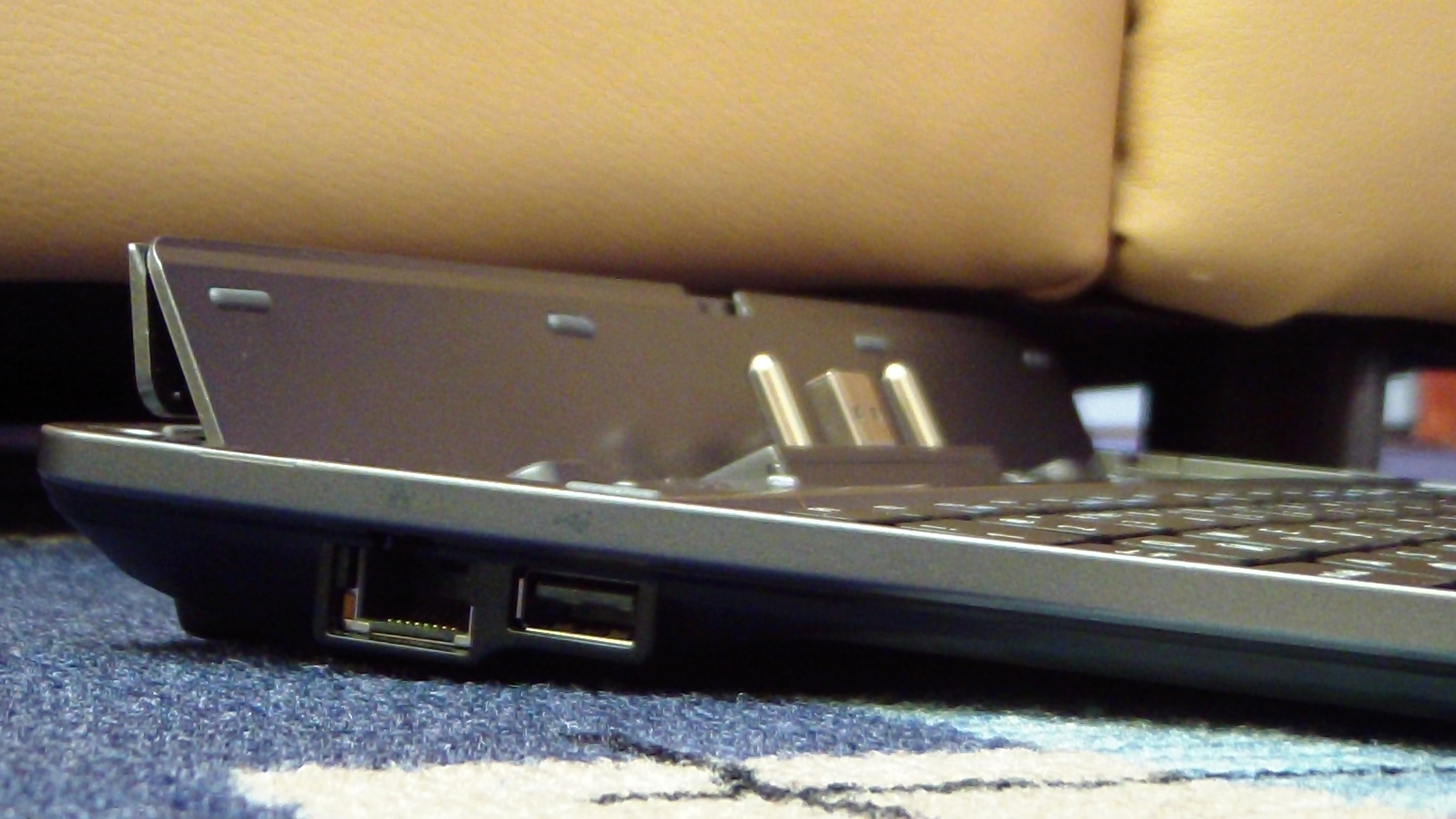 Acer Iconia Tab W500 docking station